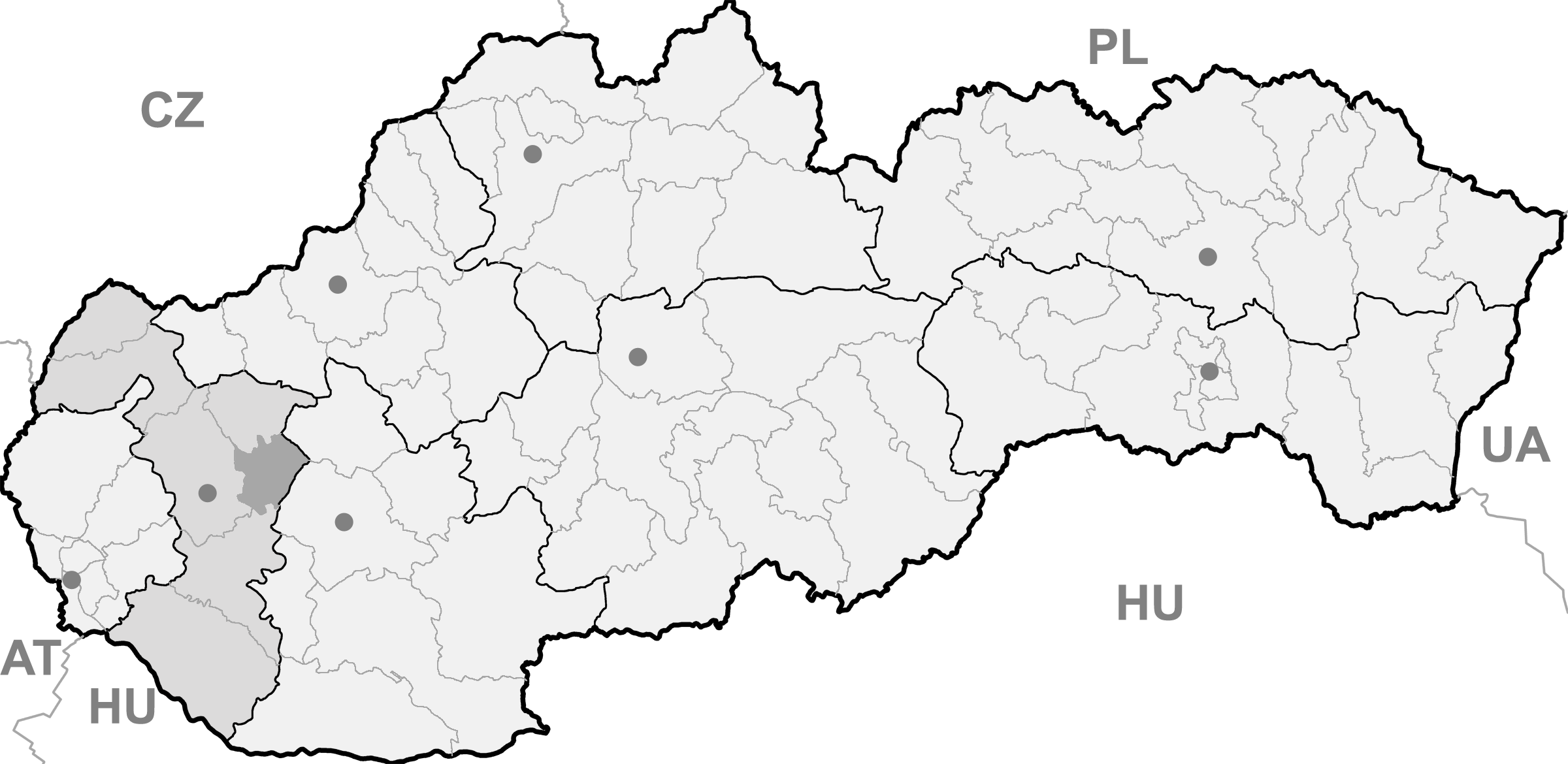 Map of Slovakia, Hlohovec district and Trnava region highlighted